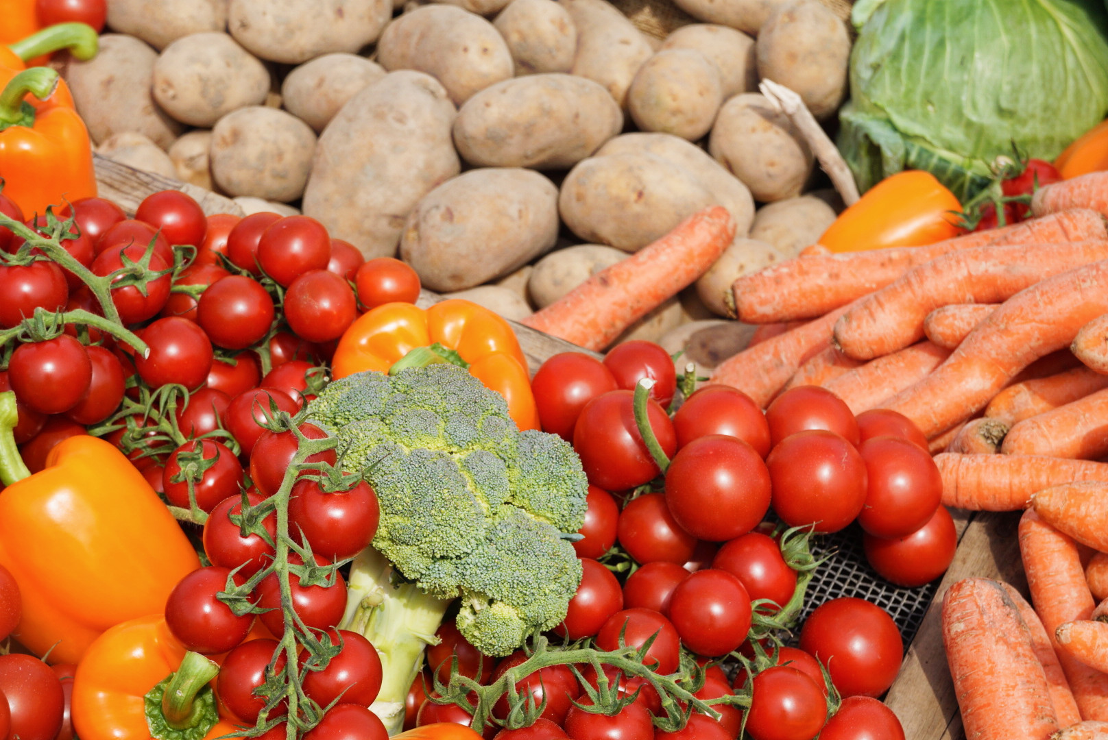 A showcase of vegetables at a farm event.